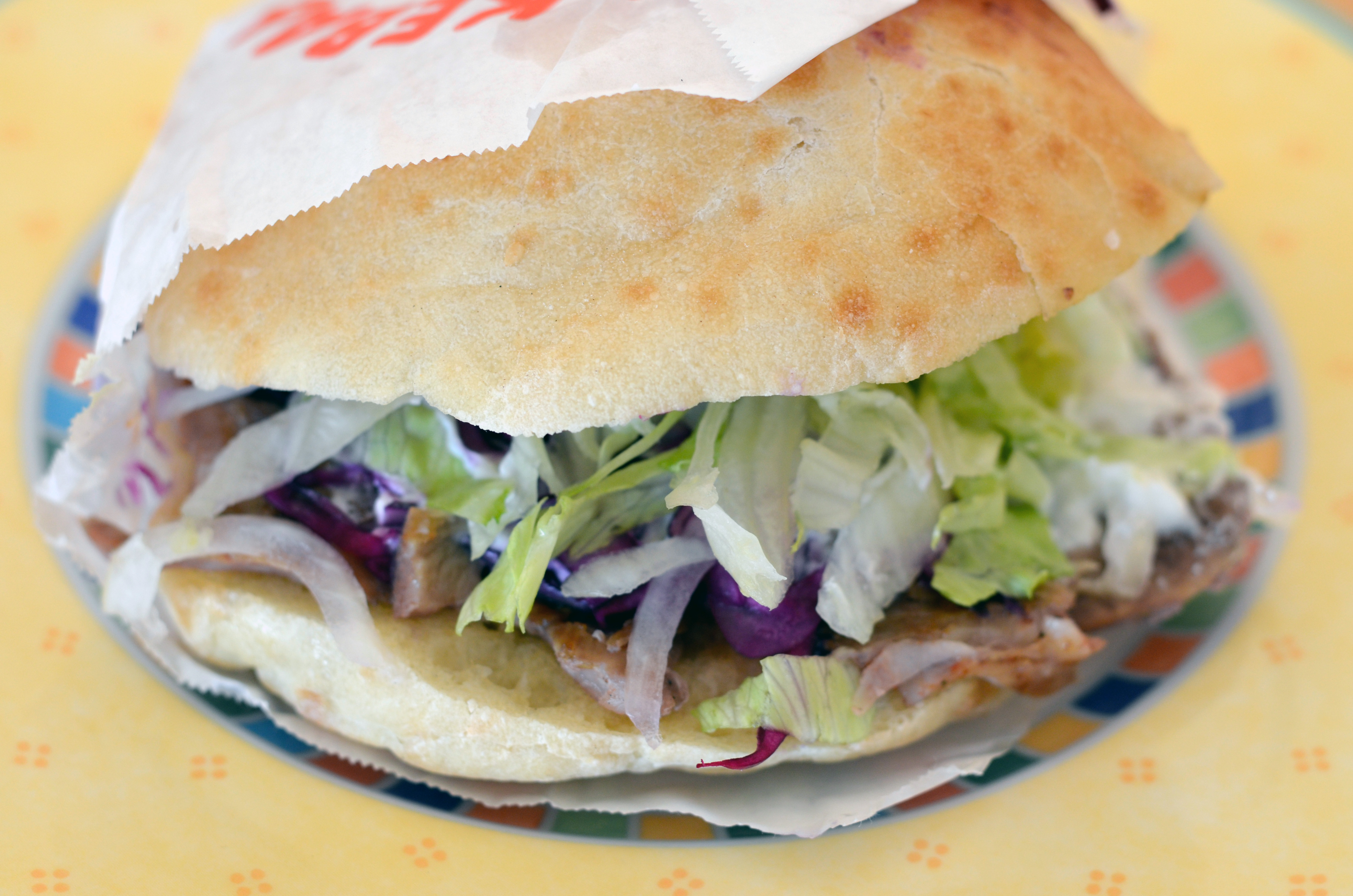 A doner kebab on a plate.